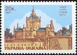 Stamp of Ukraine